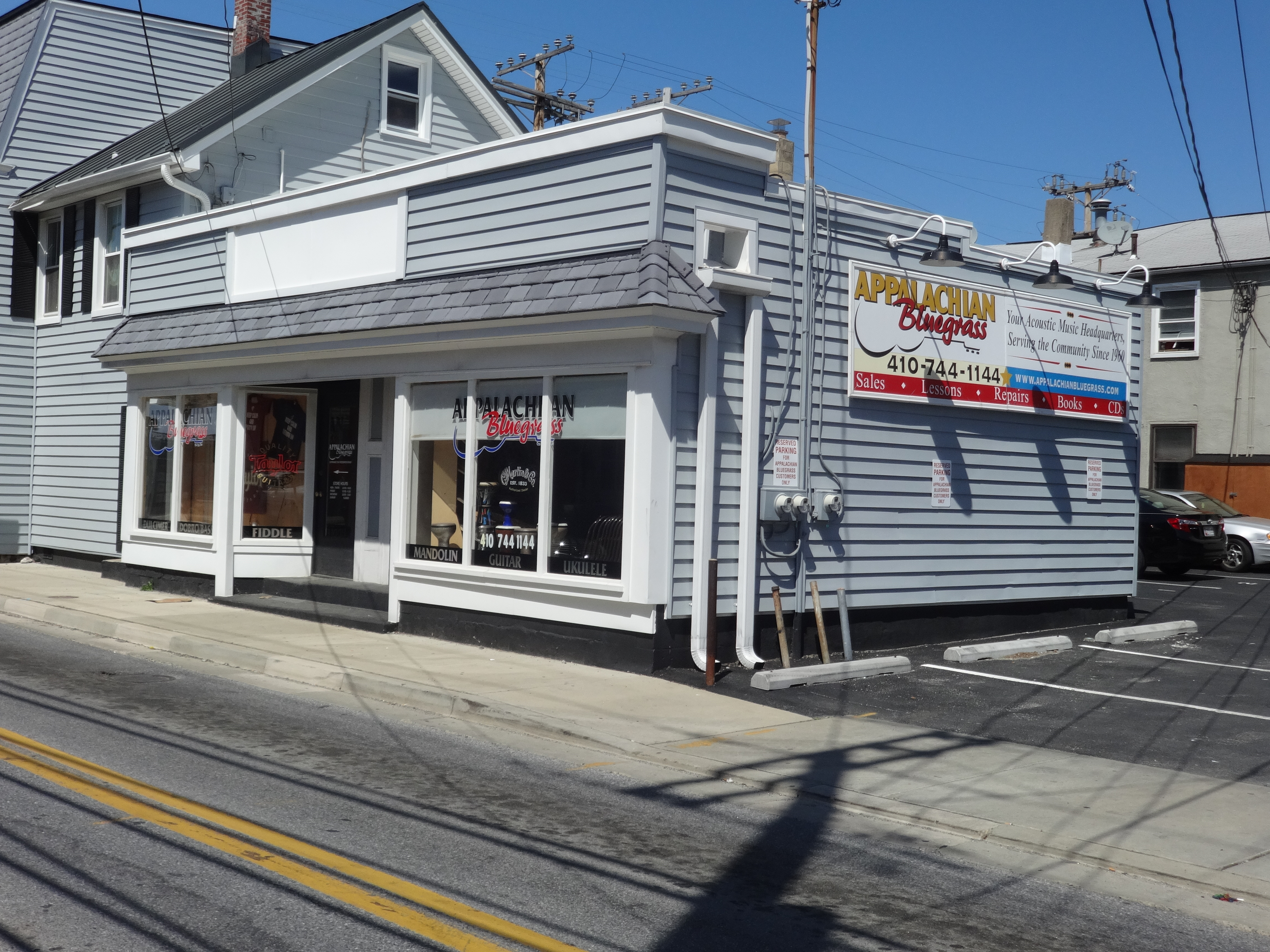 Appalachian Bluegrass music store, Catonsville, Baltimore County, Maryland.